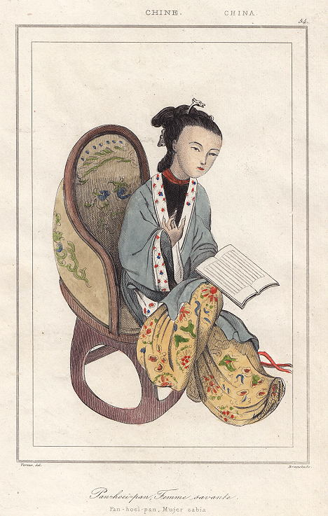 The Chinese historian Ban Zhao